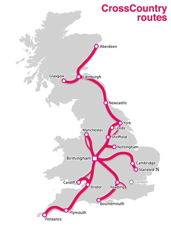 Schematic route map of service for the CrossCountry UK train franchise. Based on service map from June 2019, shows major cities served along with select alternate service branches.